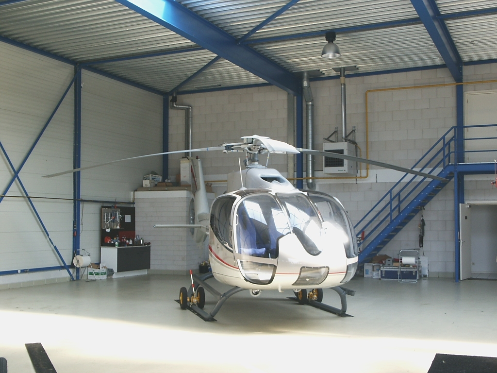 An Eurocopter EC 130 from Heli Holland at Lelystad Airport